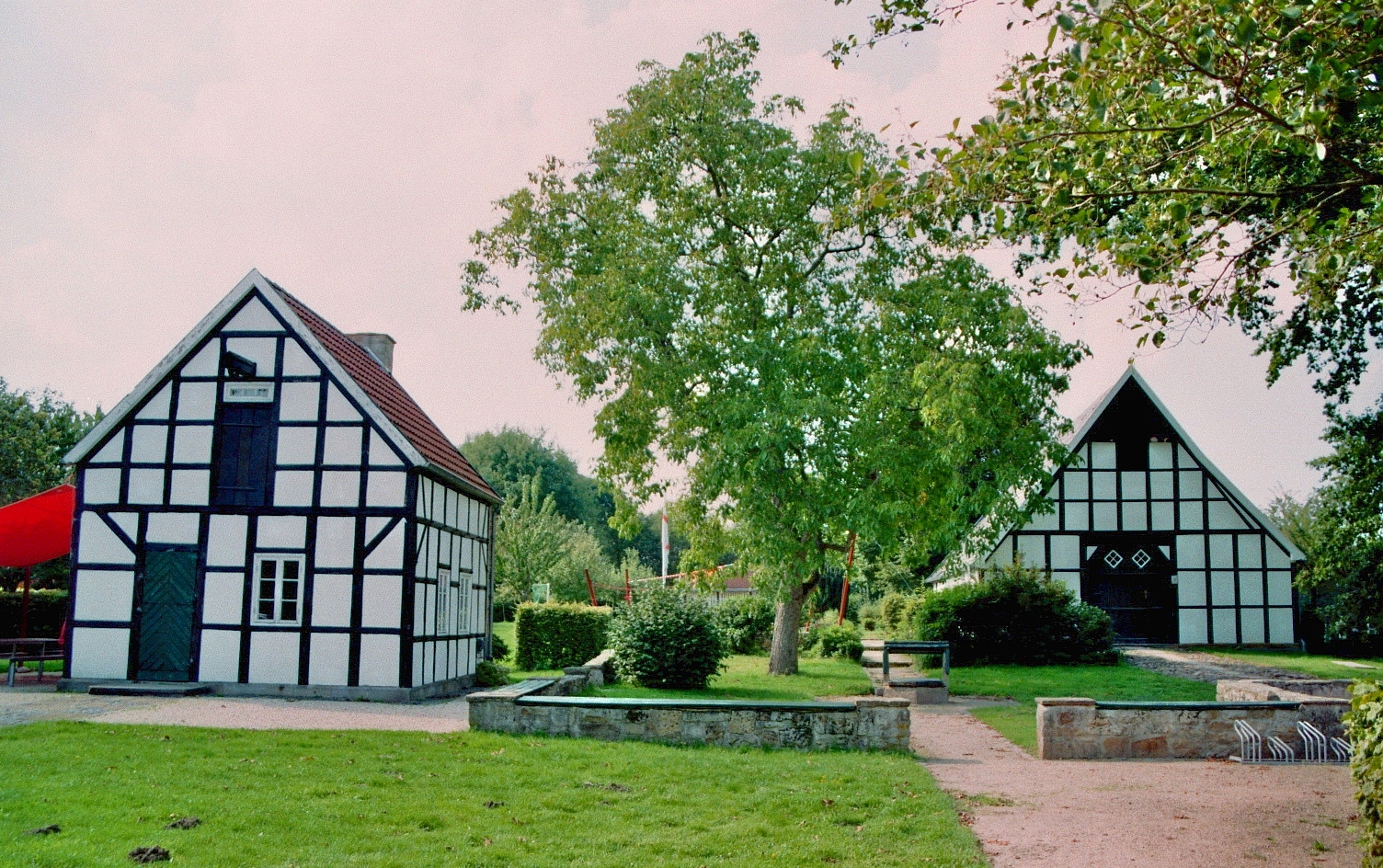 Georgshof in Mettingen, Kreis Steinfurt, North Rhine-Westphalia, Germany.